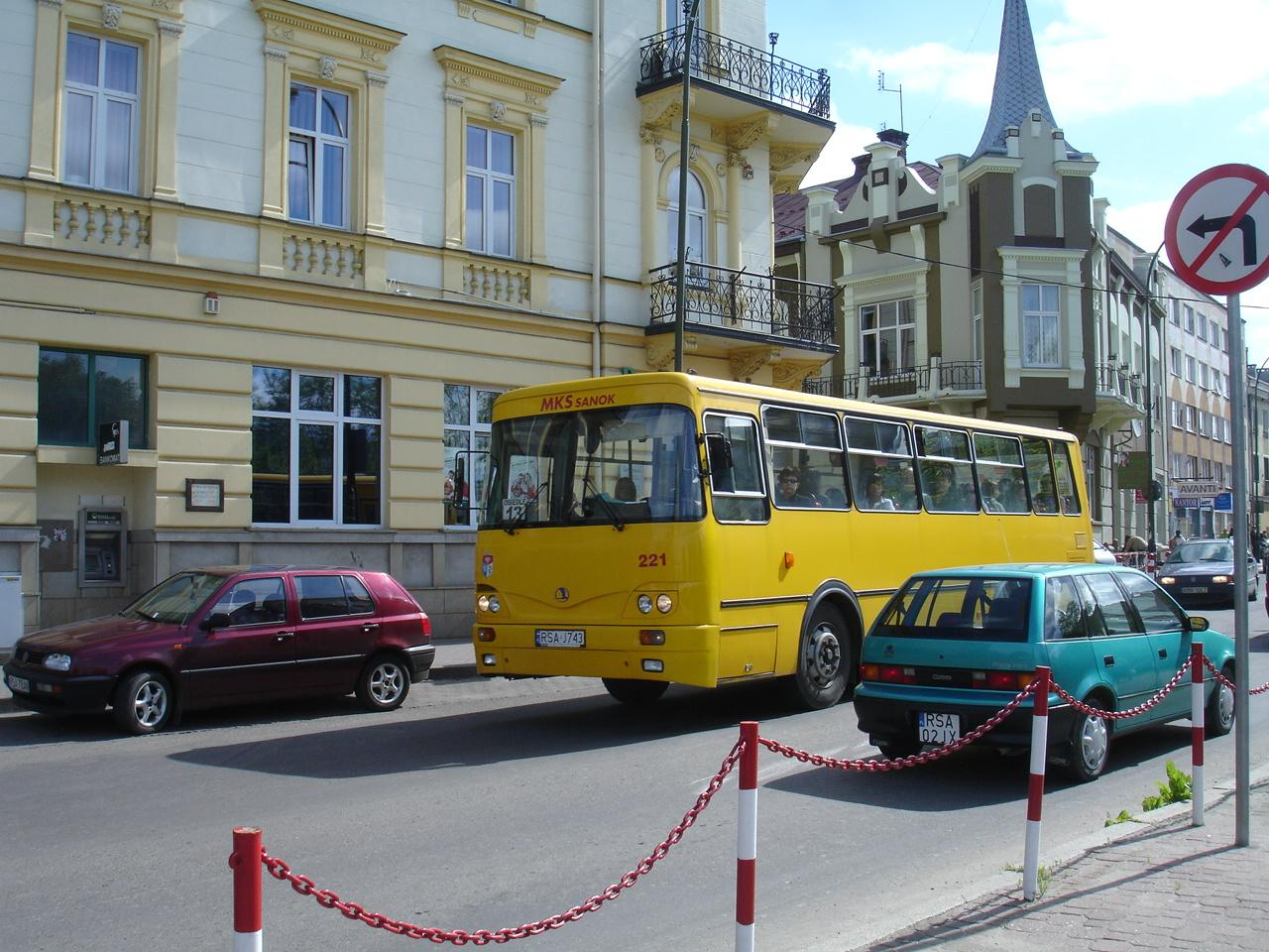 Autosan H9-35 bus (#221) in Sanok, Poland. Built 1988, MKS Sanok operator.